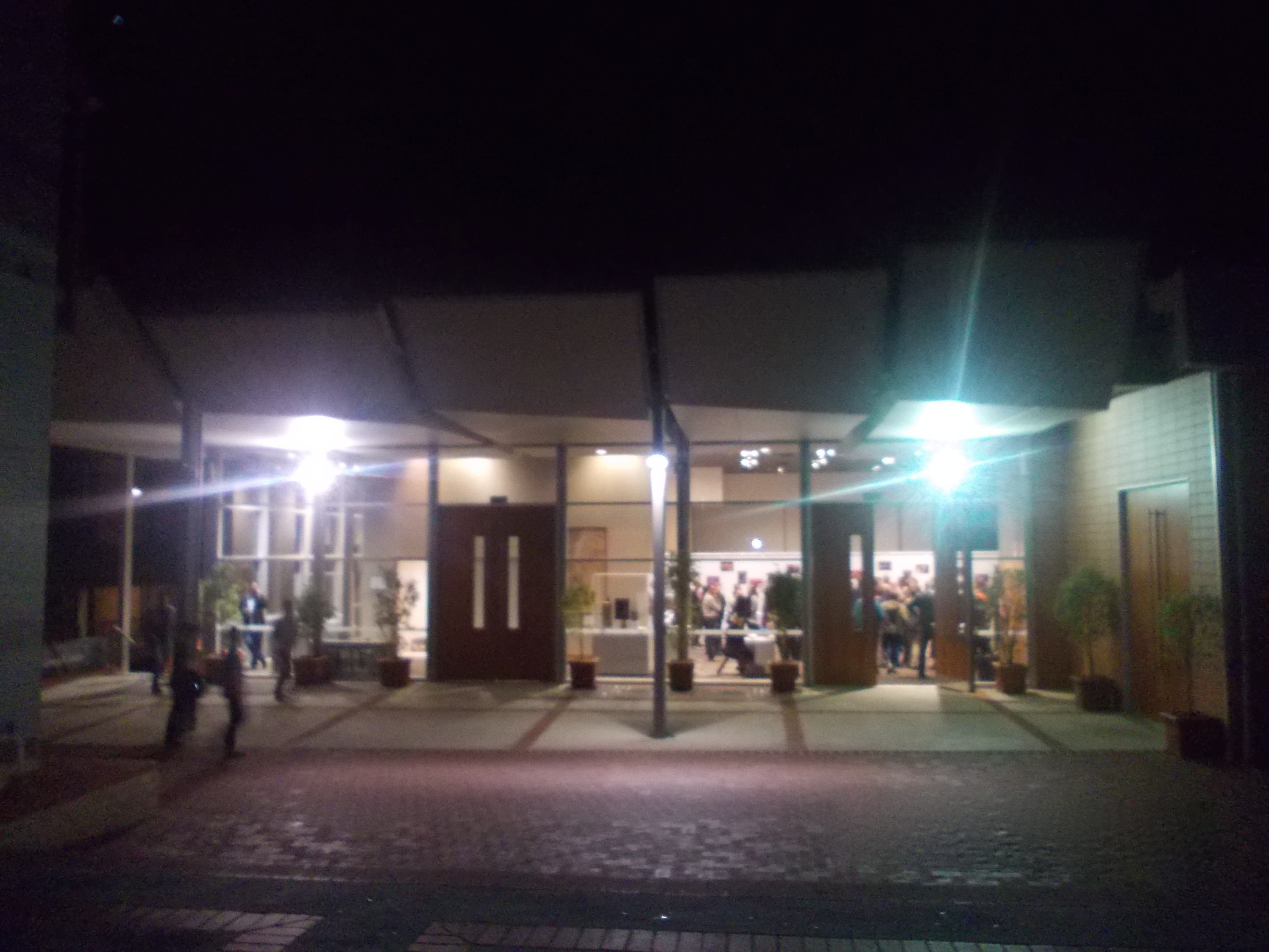 Dickinson Centre at Night